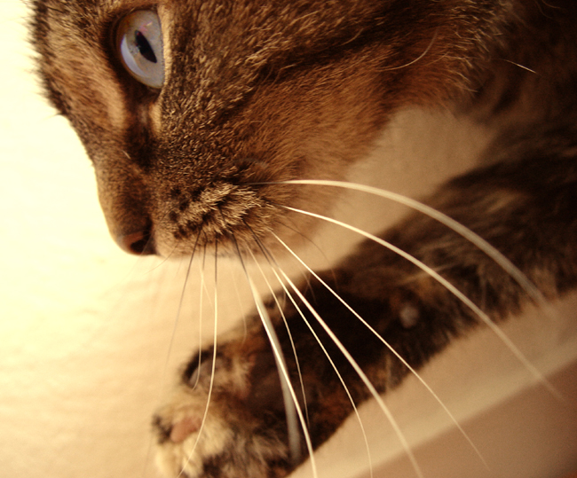 Cats Whiskersobi